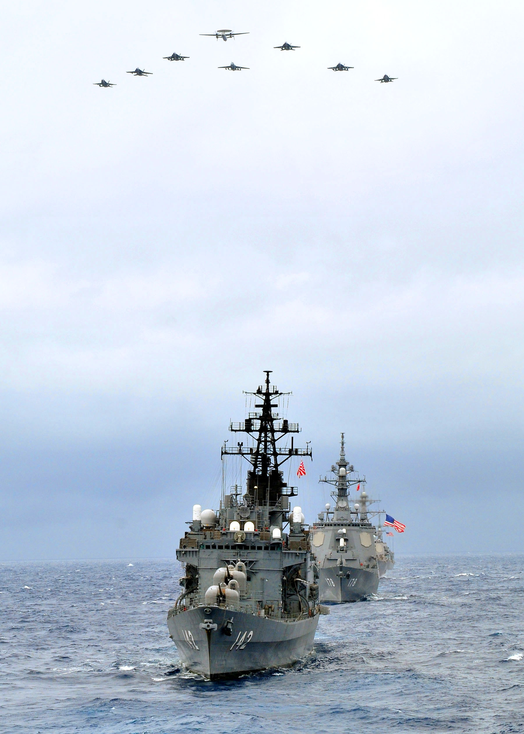 Aircraft fly overhead as the Japanese Maritime Self-Defense Force Haruna-class helicopter destroyer HS Hiei (DDH 142), front, and the Atago-class guided missile destroyer JS Ashigara (DDG 178) conduct a photo exercise with U.S. Navy vessels in the Philippine Sea Nov. 17, 2009, during Annual Exercise (ANNUALEX) 2009. The combined exercise between U.S. and Japanese naval forces is designed to improve military relationships between the two nations and improve surface, air and undersea warfare capabilities. (DoD photo by Chief Mass Communication Specialist Ty Swartz, U.S. Navy/Released)